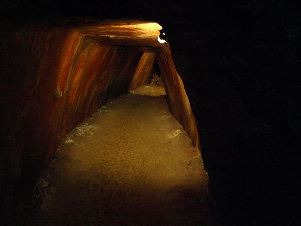 khewra salts mines near pind daadan khan punjab